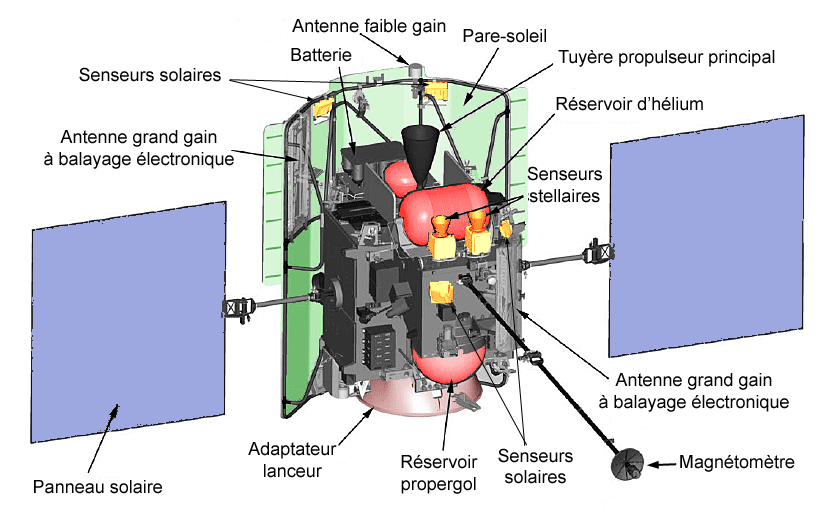 drawing back side-spacecraft MESSENGER french labels